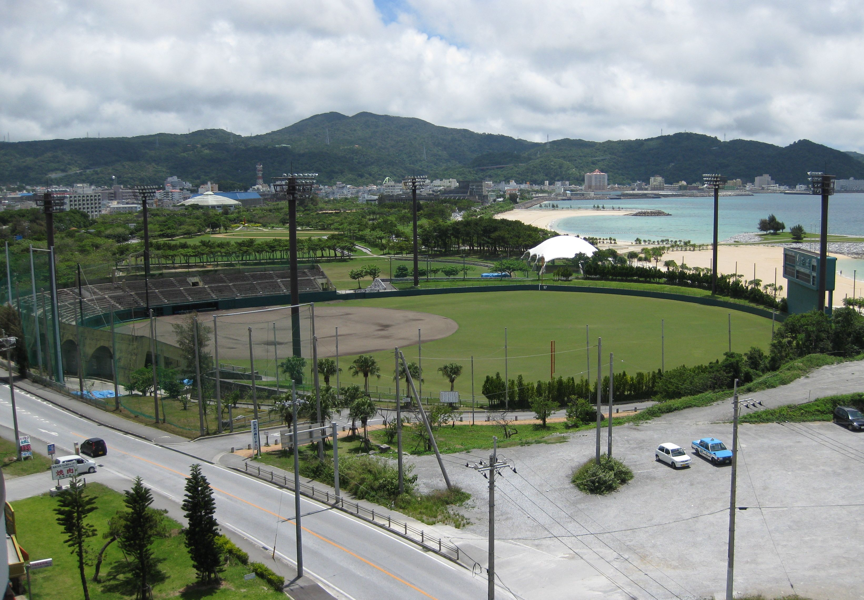 Nago Municipal Baseball Stadium in Okinawa, Japan